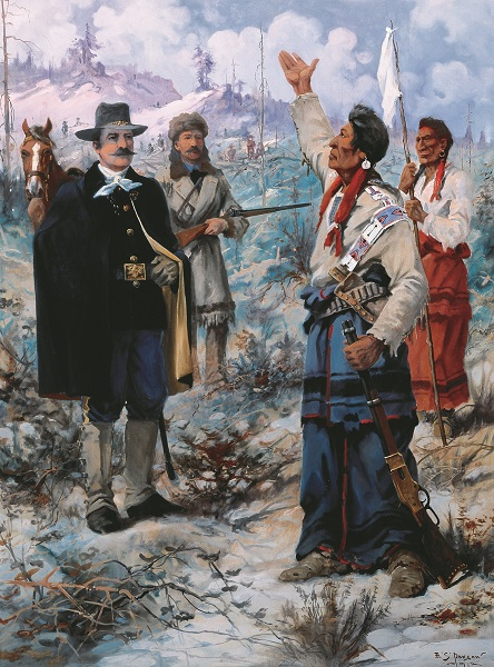 "The Surrender of Chief Joseph" by Edgar Samuel Paxson, mural in lobby of Montana House of Representatives